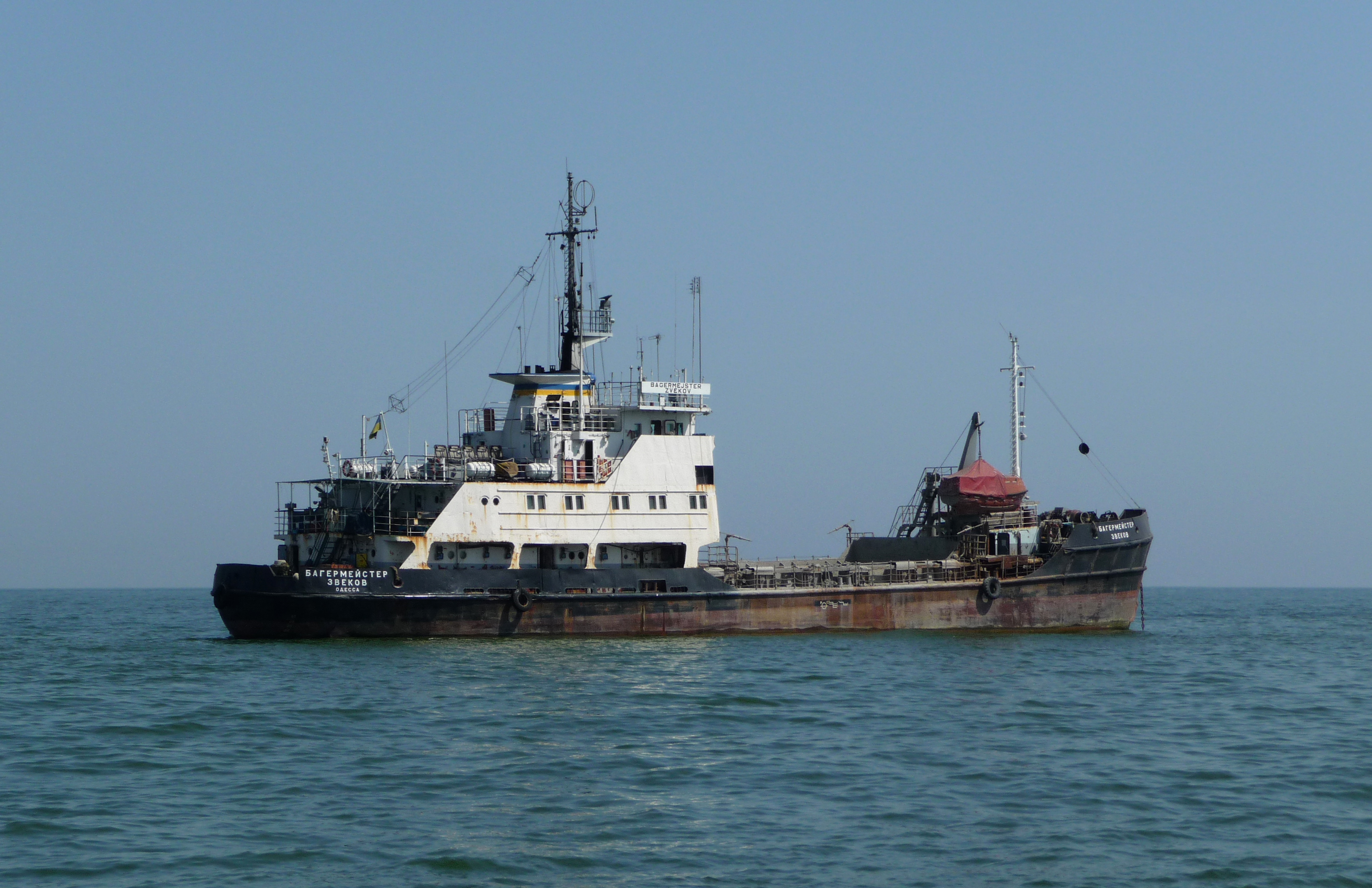 Bagermejster Zvekov bulk cargo ship (motor hopper) near port of Odessa. IMO Number 8724523.